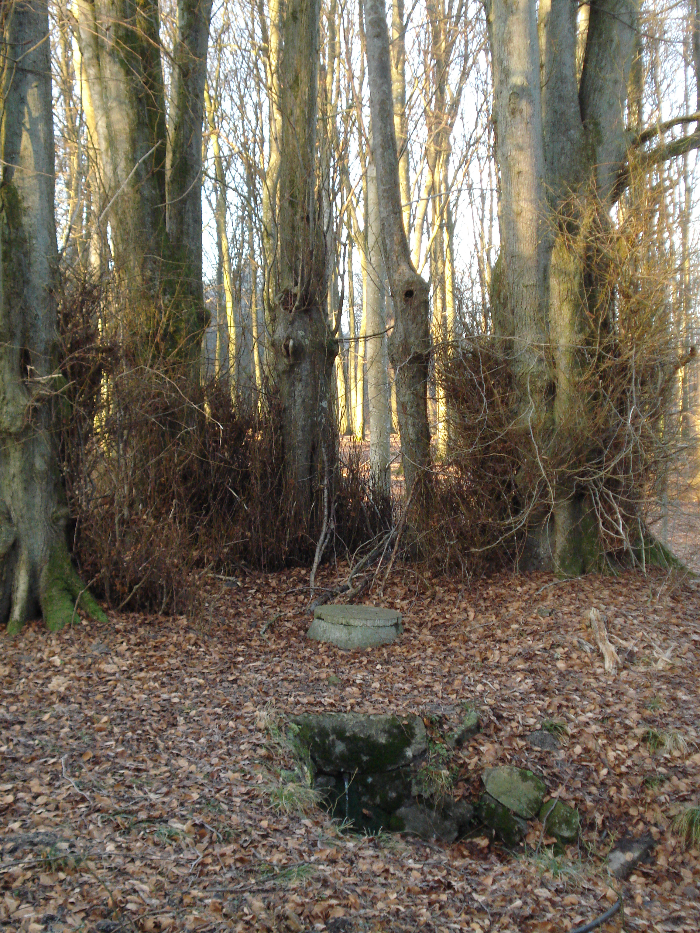 The water spring Ivarskilde in Rosenholm Skov (Forest), Jutland, Denmark